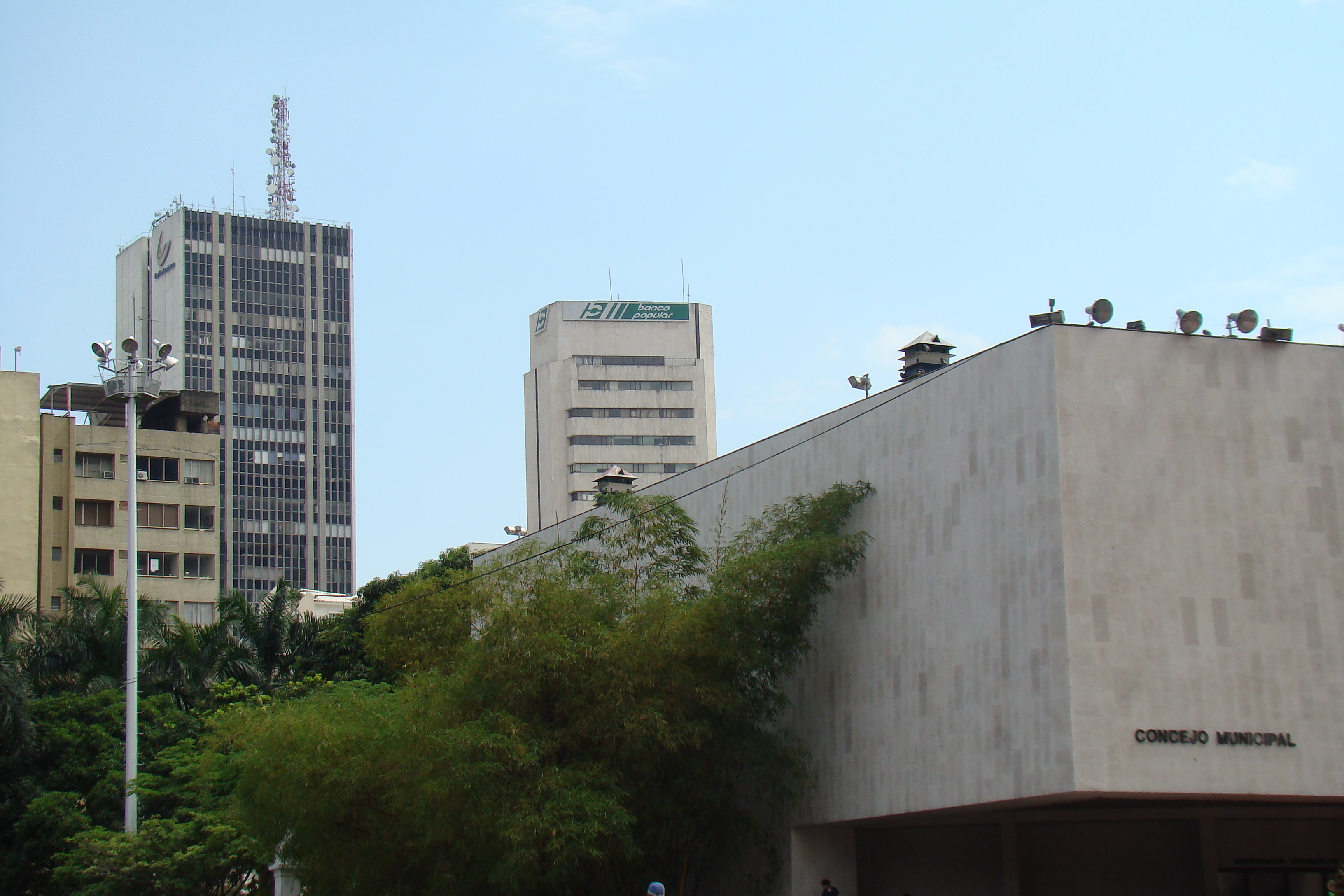 consejo de cali